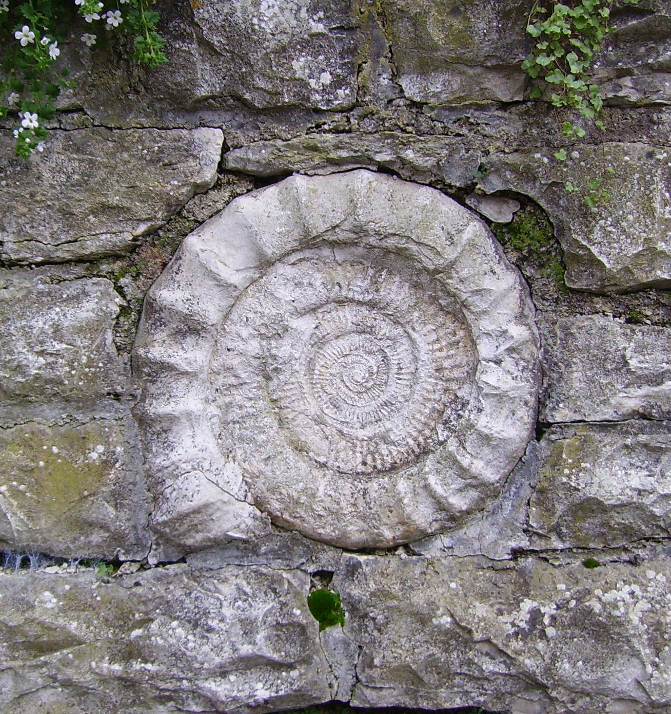 Pottenstein Franconia (Bavaria, Germany)